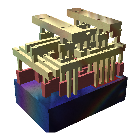 3D View of a small integrated circuit standard cell. This is an image I made myself, using my own software. As far as I'm concerned, you can do whatever you like with it.